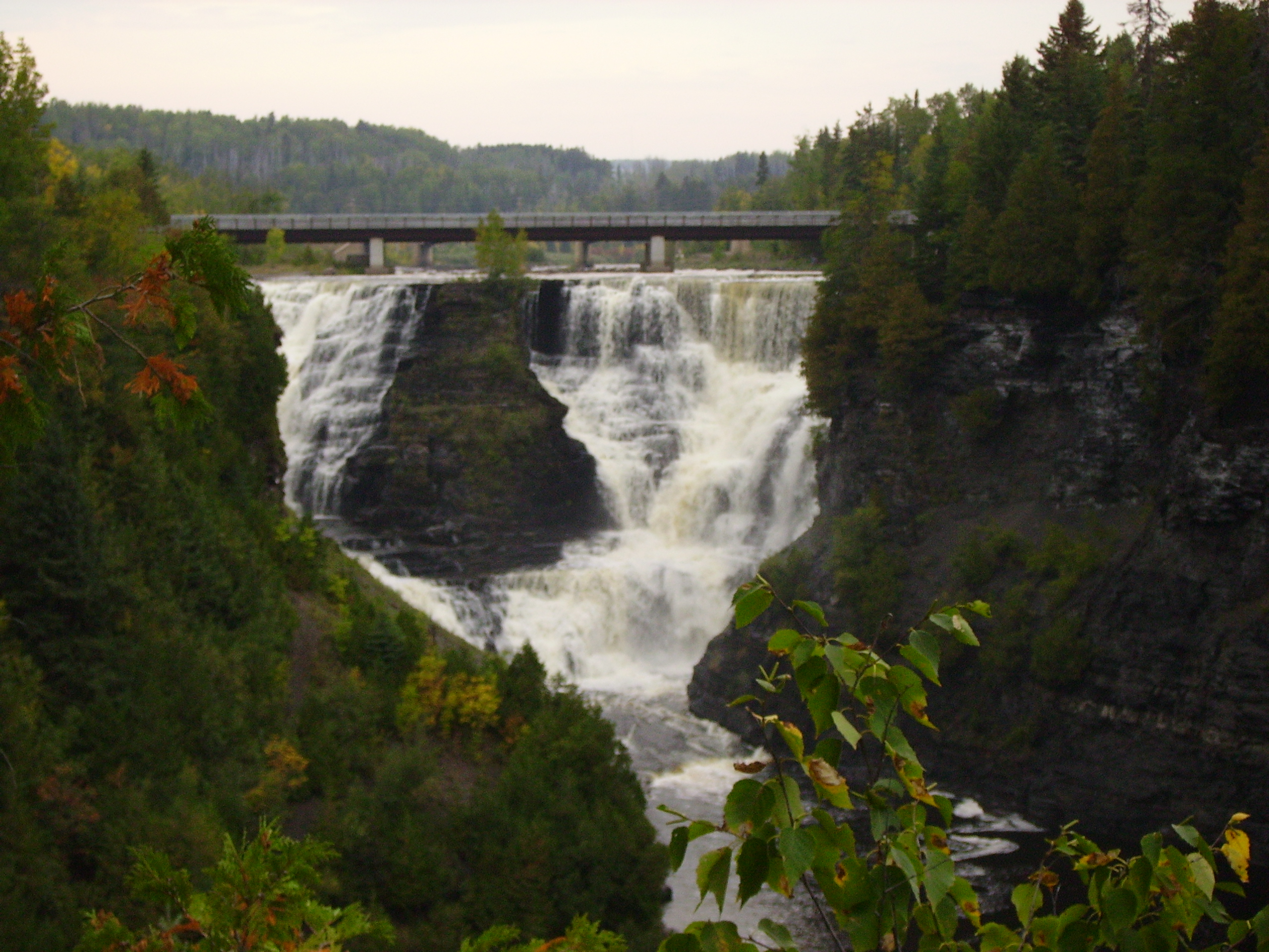 Kakabeka Falls, Ontario, Canada - personal photo